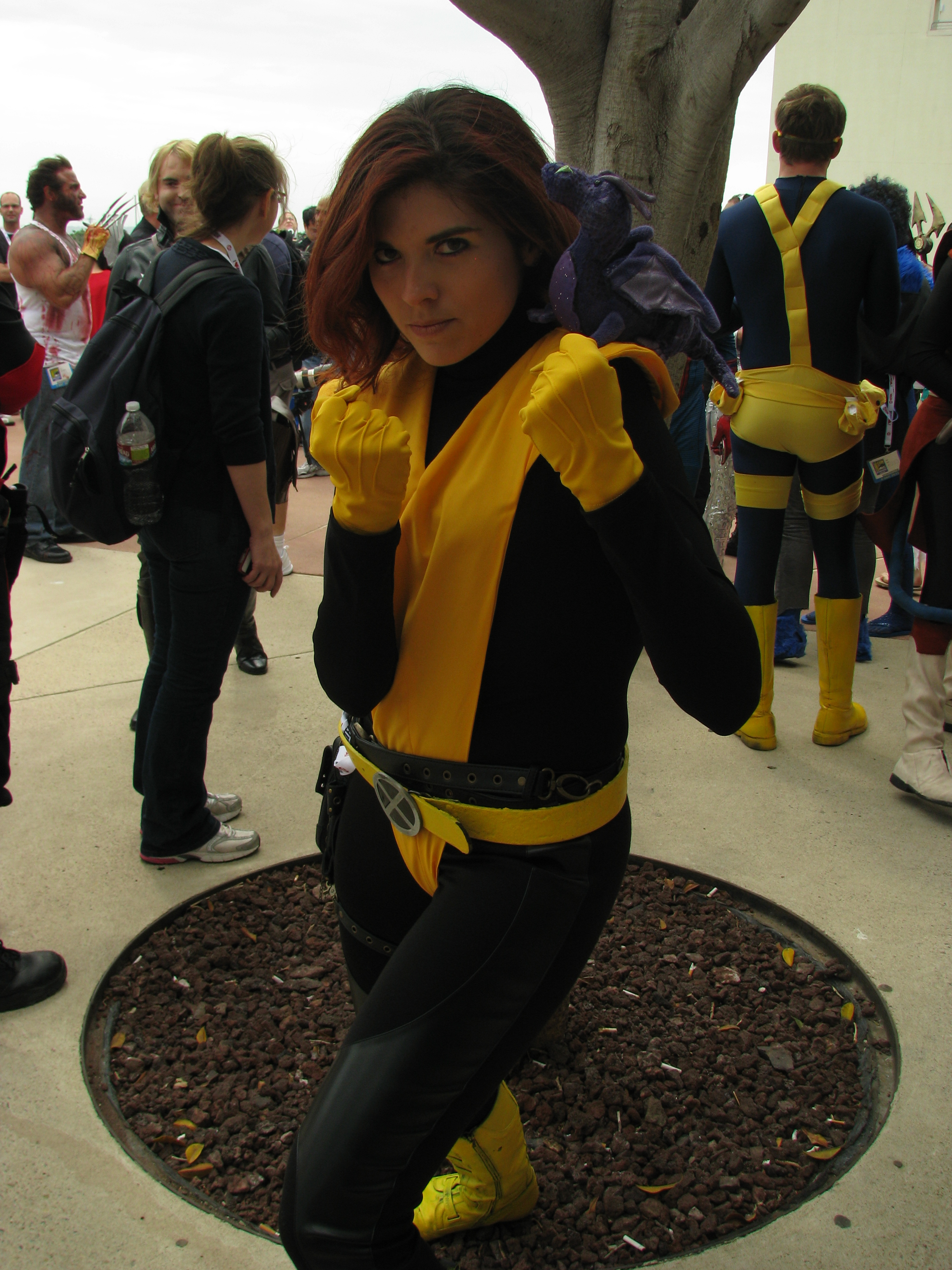 A cosplay of Kitty Pryde and Lockheed at San Diego Comic Con 2013